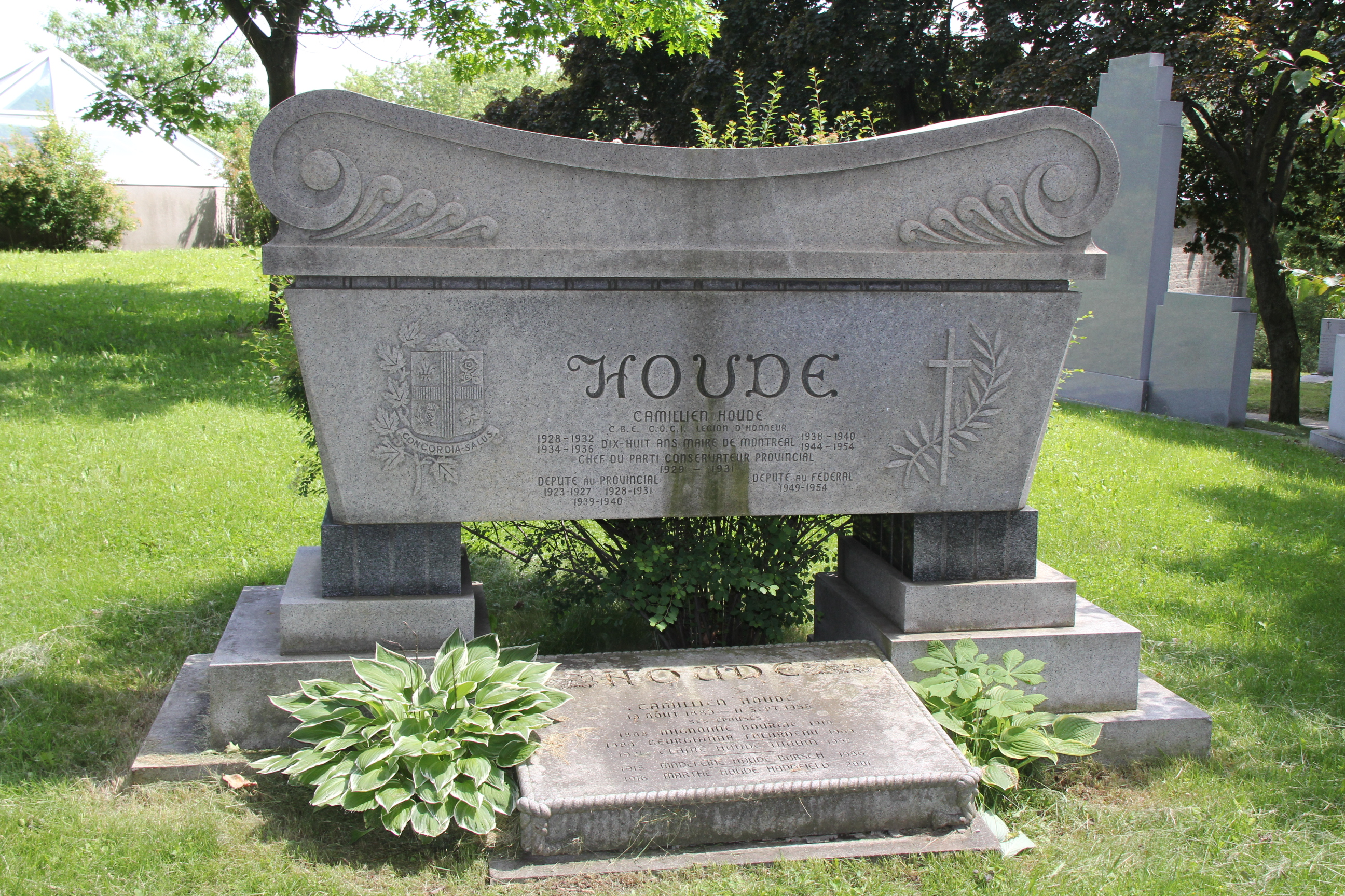 Grave of Camillien Houde in Notre Dame des Neiges Cemetery (A30 3/4), Montreal, Quebec